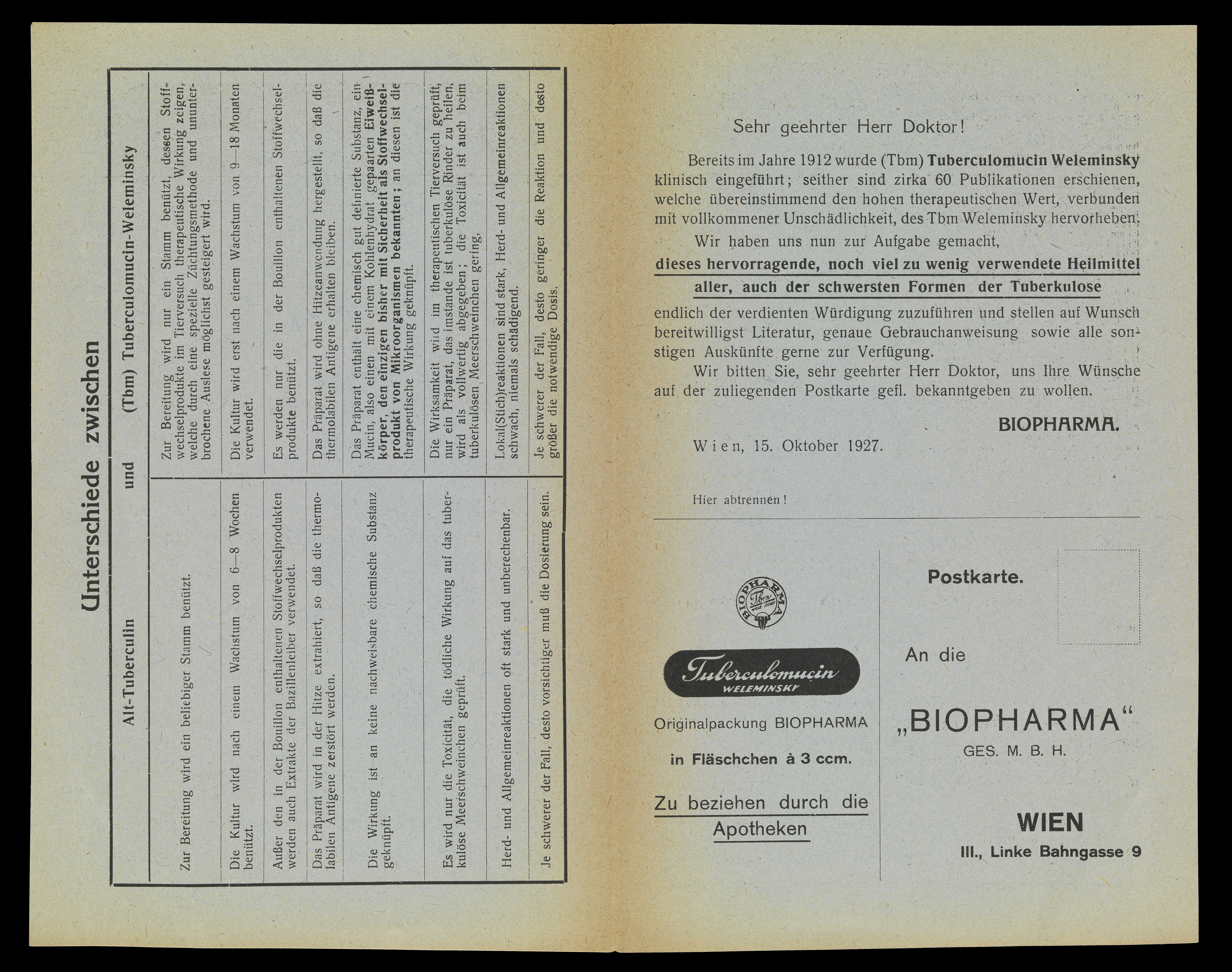 Advertisement for Tuberculomucin Weleminsky (tuberculosis, 1927). General Collections Keywords: Pharmaceutical Preparations; Drug Industry; Theranyl.; Bisodol.; Dyspepsia; Tuberculosis, Pulmonary; Bronchitis; Alupent.; Bile Beans for Biliousness.; Persantin.; Bisurated Magnesia.; Vertigo-Heel.; Villescon.; Piso's Remedy.; Biocitin.; Bisolvon.; Tuberculomucin.; Combivent.